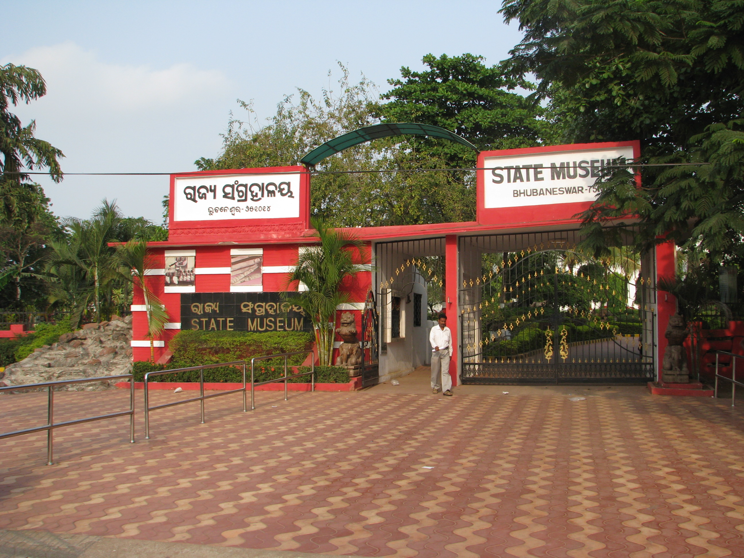 This media file is uploaded with Malayalam loves Wikimedia event.